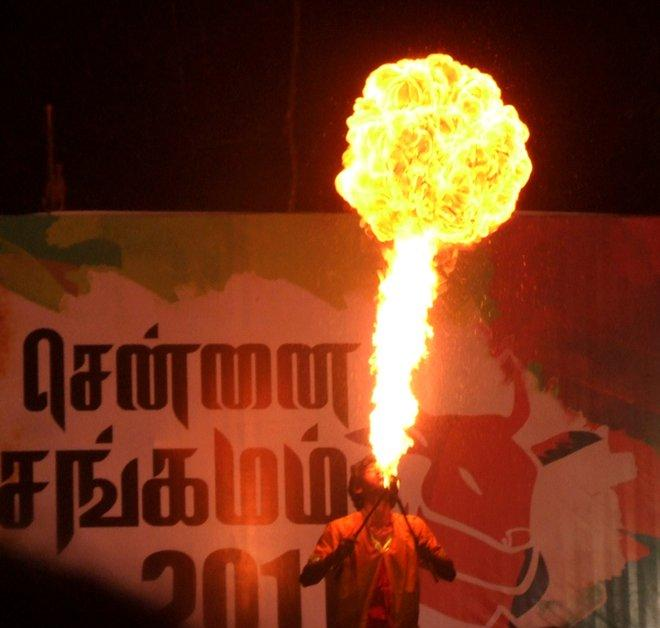 Chennai Sangamam Festival, Basant Nagar Beach, chennai